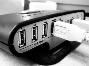 Small USB charging station hub. Photo taken with a Canon Digital IXUS 400 camera. Post-processing (resizing) done with ImageMagick on an x86_64 Gentoo Linux system (command line: convert -resize 320x240 img_0002.jpg usb_hub.jpg).